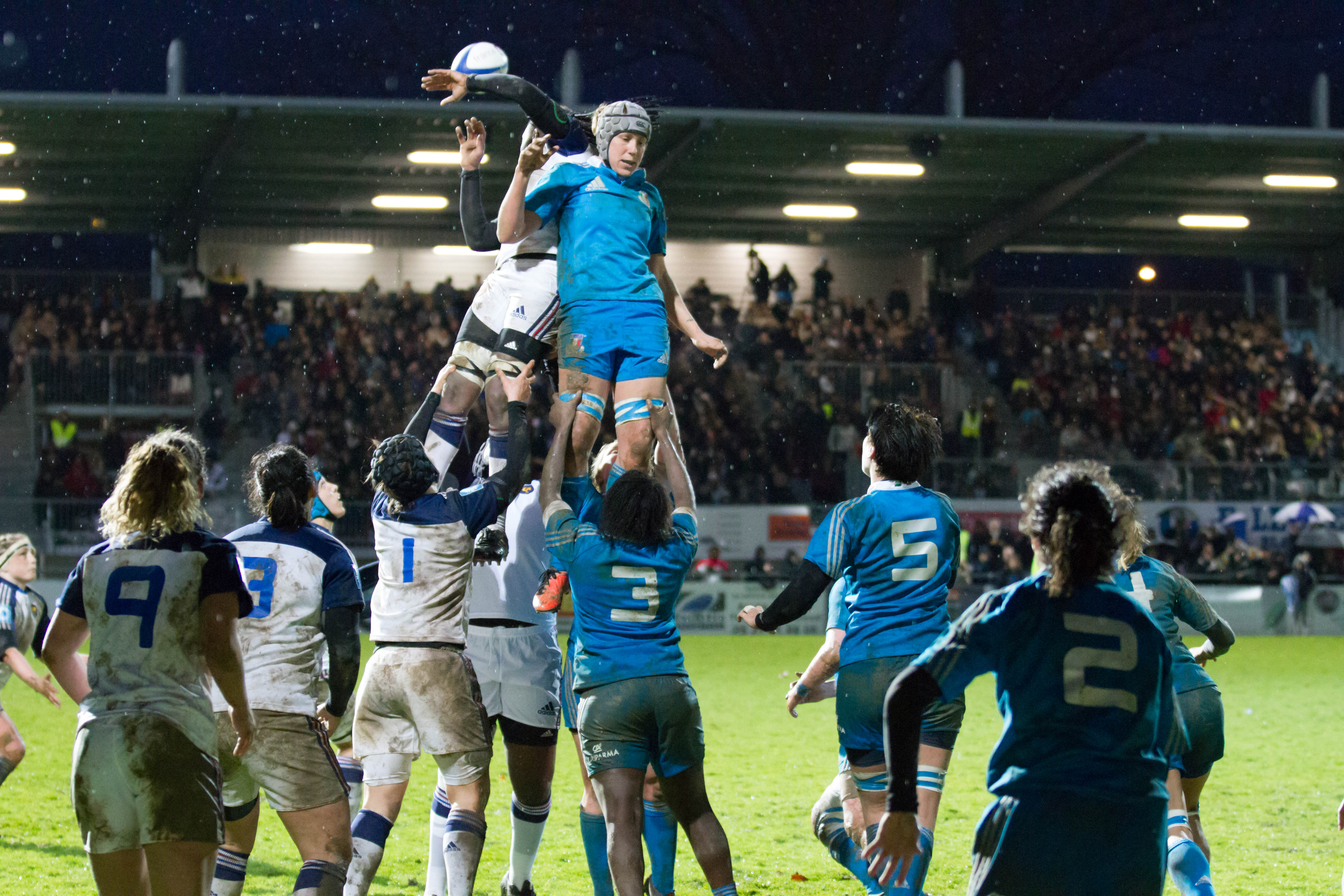 Line out for Italy: Awa Coulibaly (no 3) is lifting her captain Silvia Gaudino. Alessia Pantarotto (no 5) is ready to assist